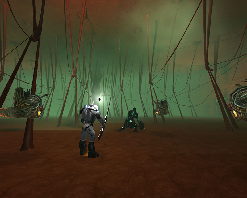 An in-game screenshot from the video game Anarchy Online. A character controlled by the player fights several computer-controlled characters inside a dynamic mission.